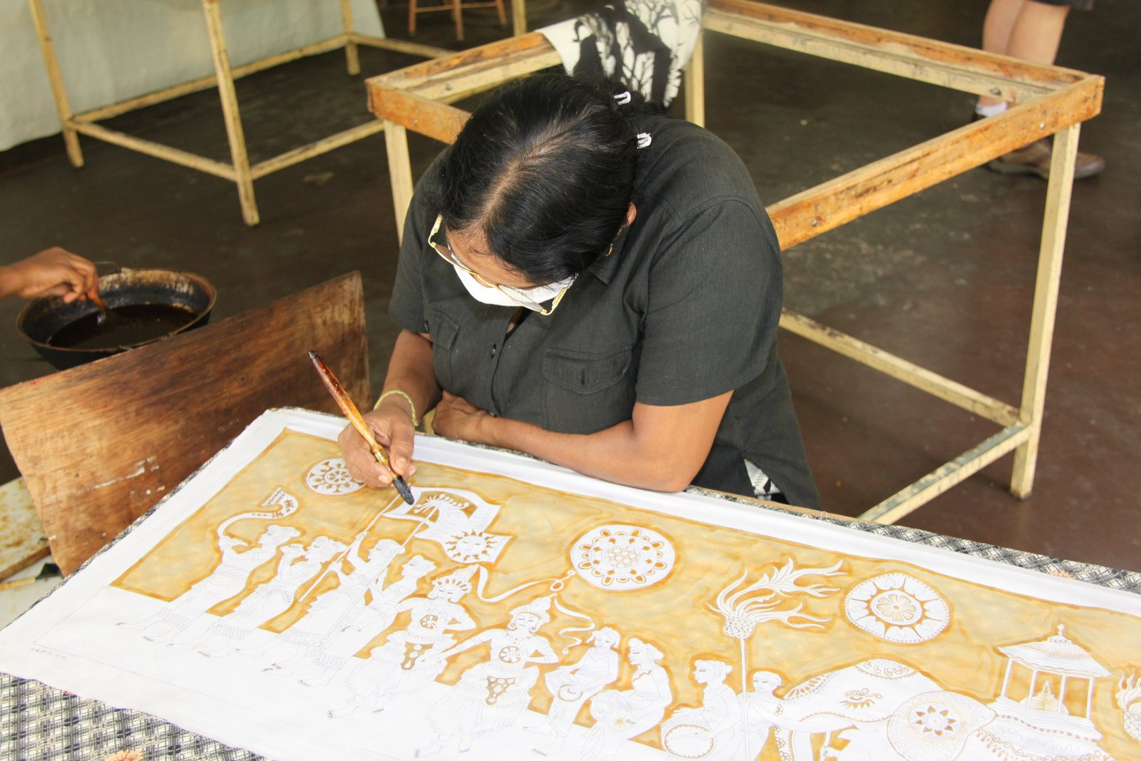 Woman with brush painting batik in Kandy Sri Lanka